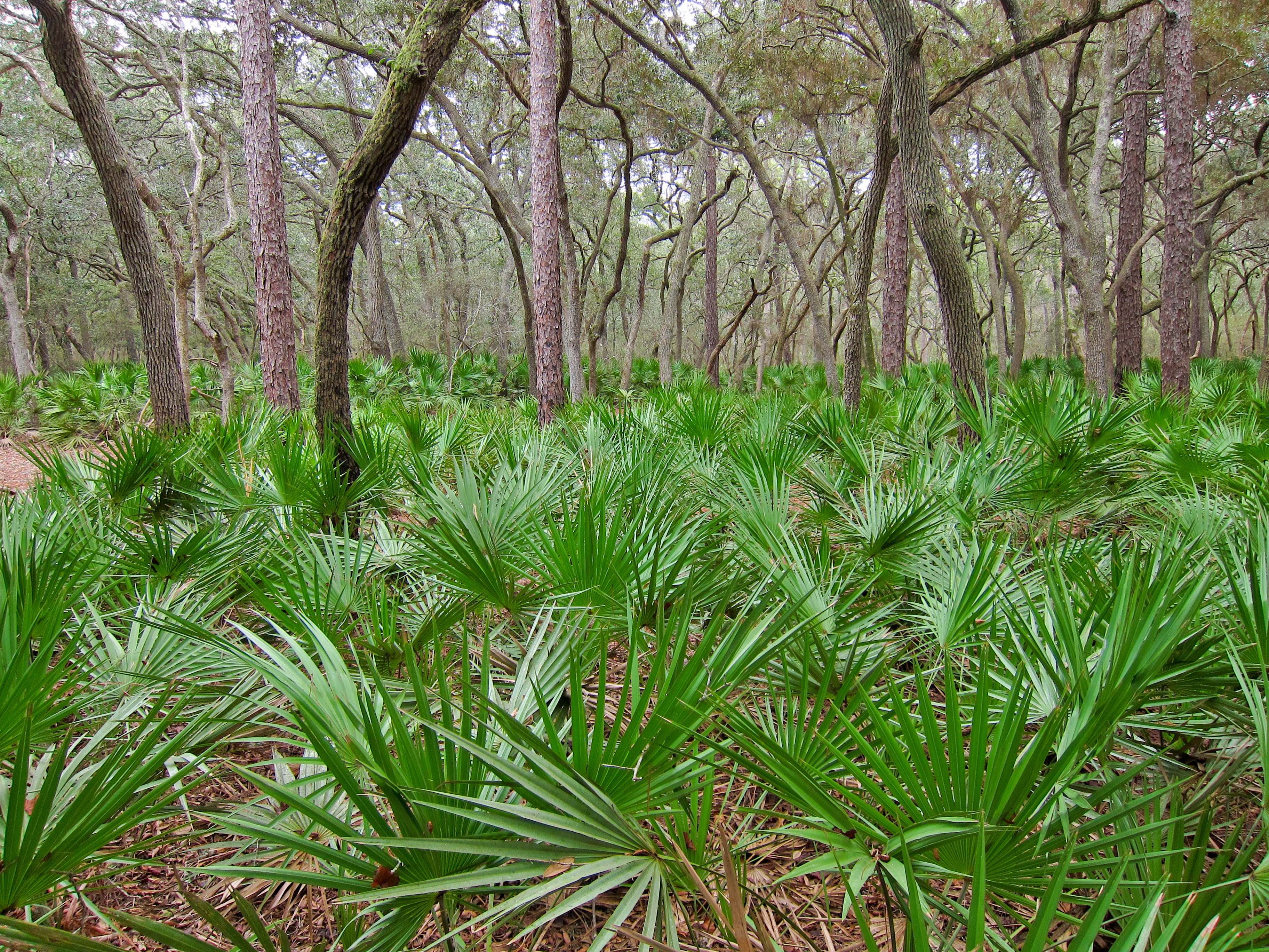 Saw palmetto Serenoa repens in forest in Manatee Springs State Park